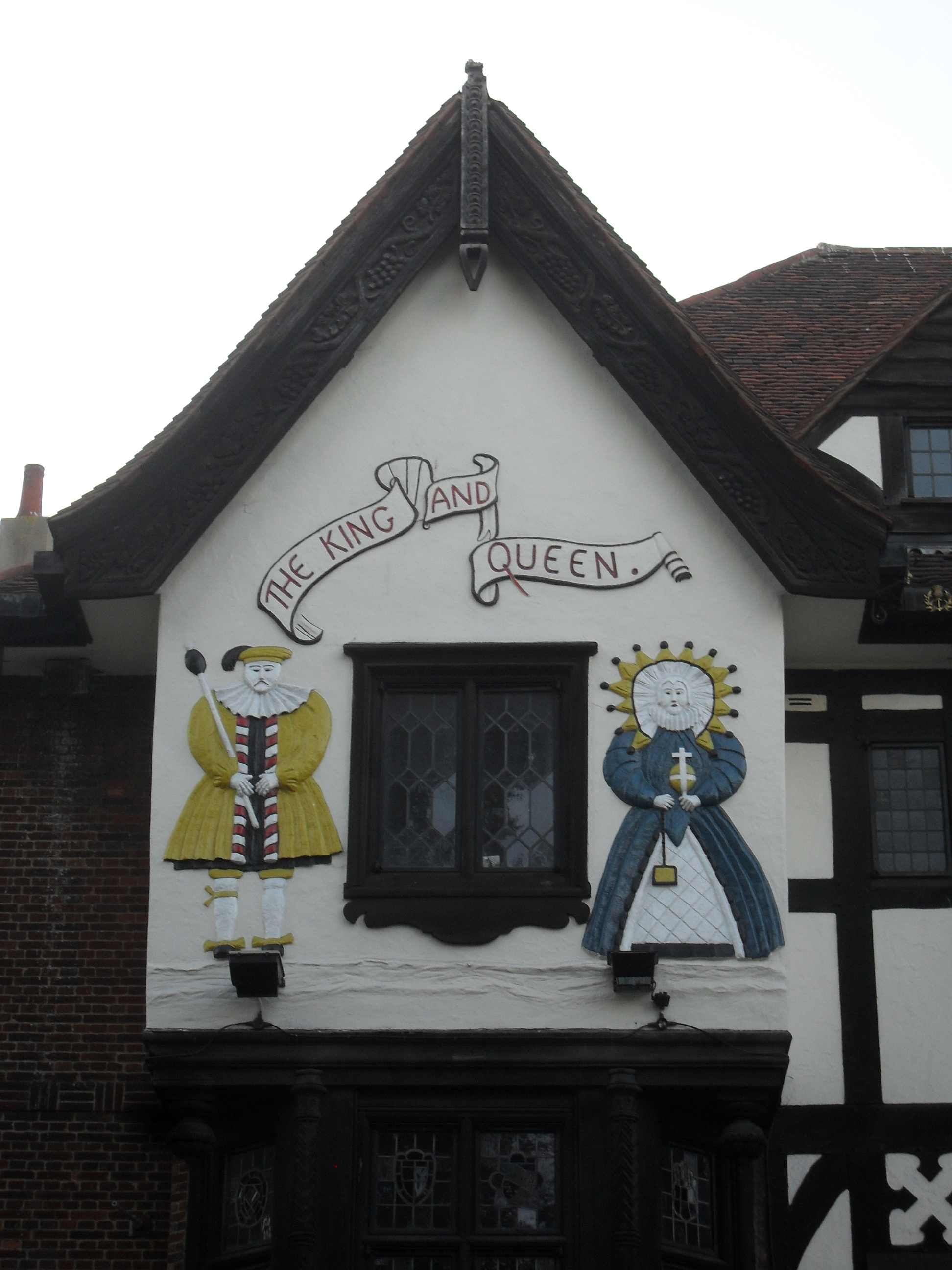 The King and Queen, Marlborough Place, Brighton, City of Brighton and Hove, England. An 18th-century pub rebuilt in extravagant Mock Tudor style by local architects Clayton & Black in the early 1930s. This picture shows the images of Henry VIII and Anne Boleyn below one of the gables. Listed at Grade II by English Heritage (NHLE Code 1381770)